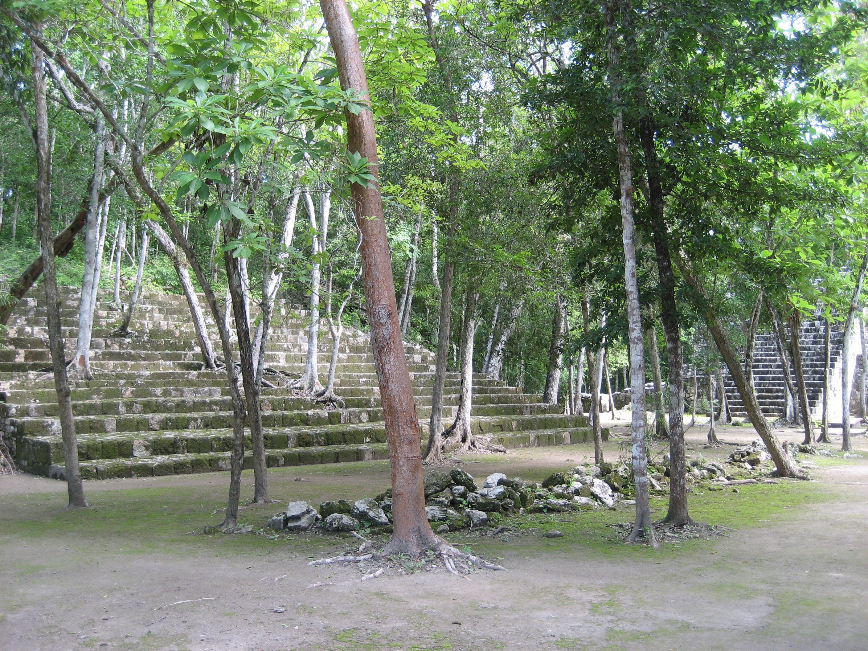 South Group, Balamku, Campeche, Mexico